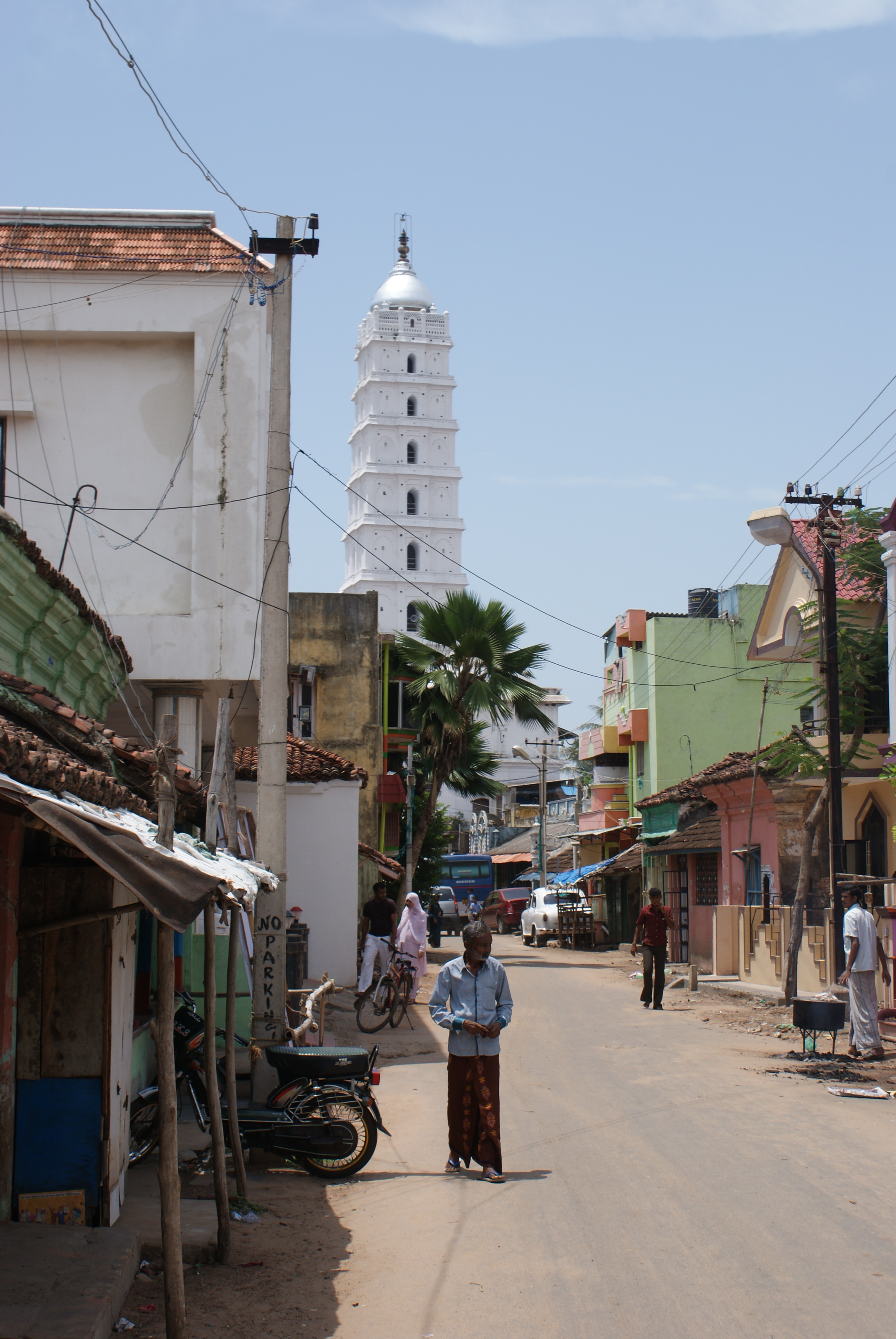 Street in Nagore, one minaret of the Nagore Dargah is seen in the background